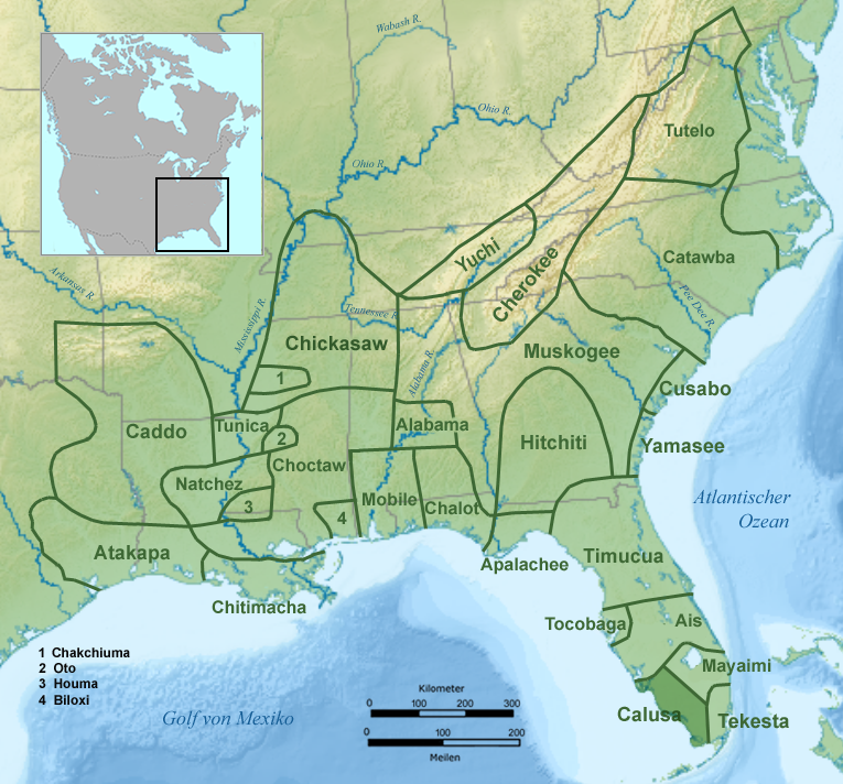 Tribal territory of Calusa during sixteenth century